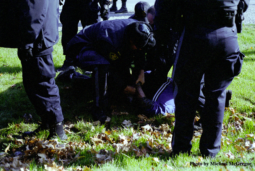 An anti-reclaimation protestor is arrested by OPP officers after attempting to breach a police line on Oct 15 2006. Michael McGregor